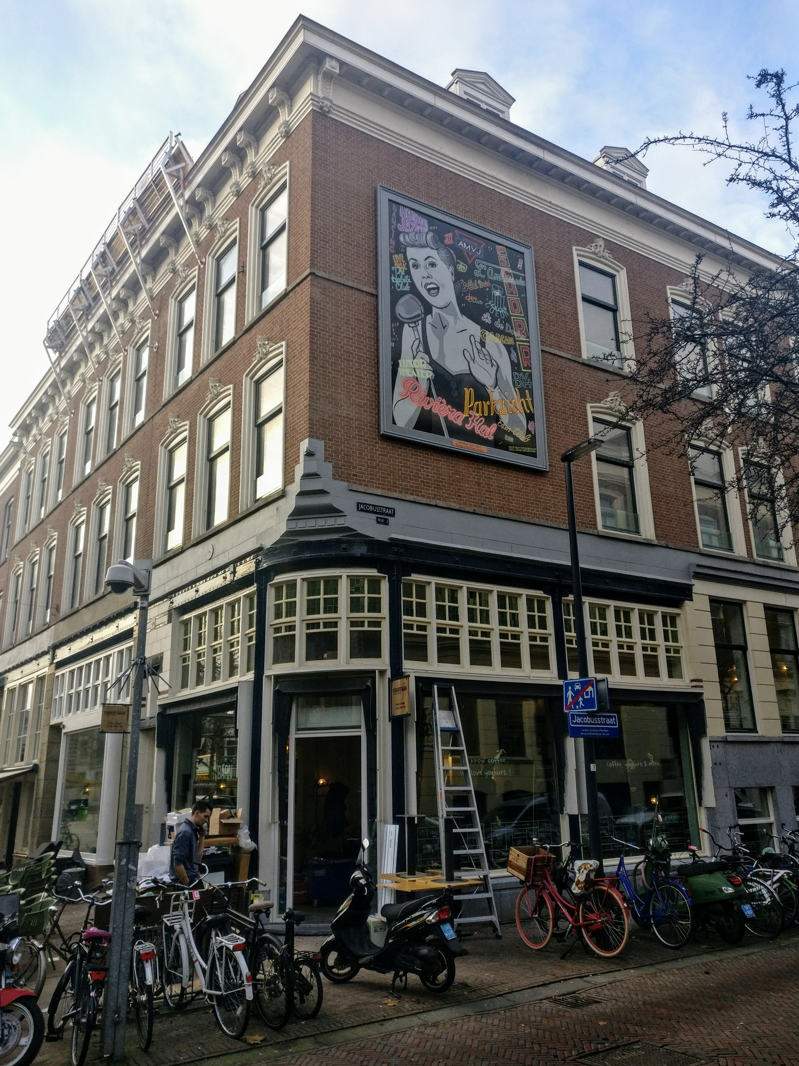 Portrait of Rita Reys, part of the R'JAM exhibition